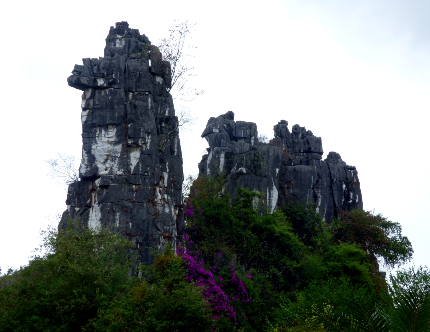 The Camel Hill formation in Guilin's Seven Star Park (China)